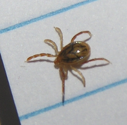 Picture of Ixodes holocyclus - paralysis tick. Taken at Batemans Bay, New South Wales, Australia in November 2005. Tick came from coat of dog who had been in bush. Photographed against lined paper for indication of size. Identified by reference to photo at Picture taken by AYArktos